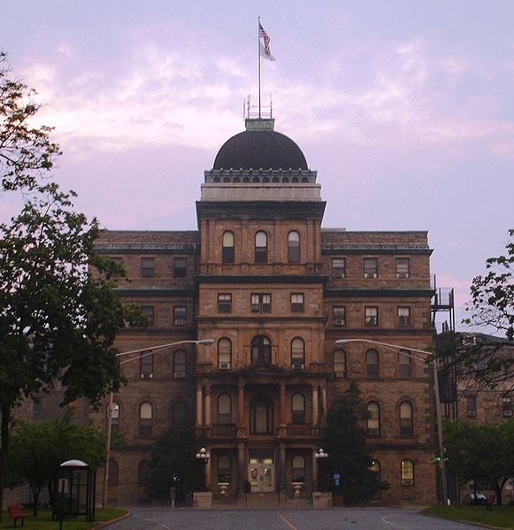 the main building of the former Greystone Park Psychiatric Hospital